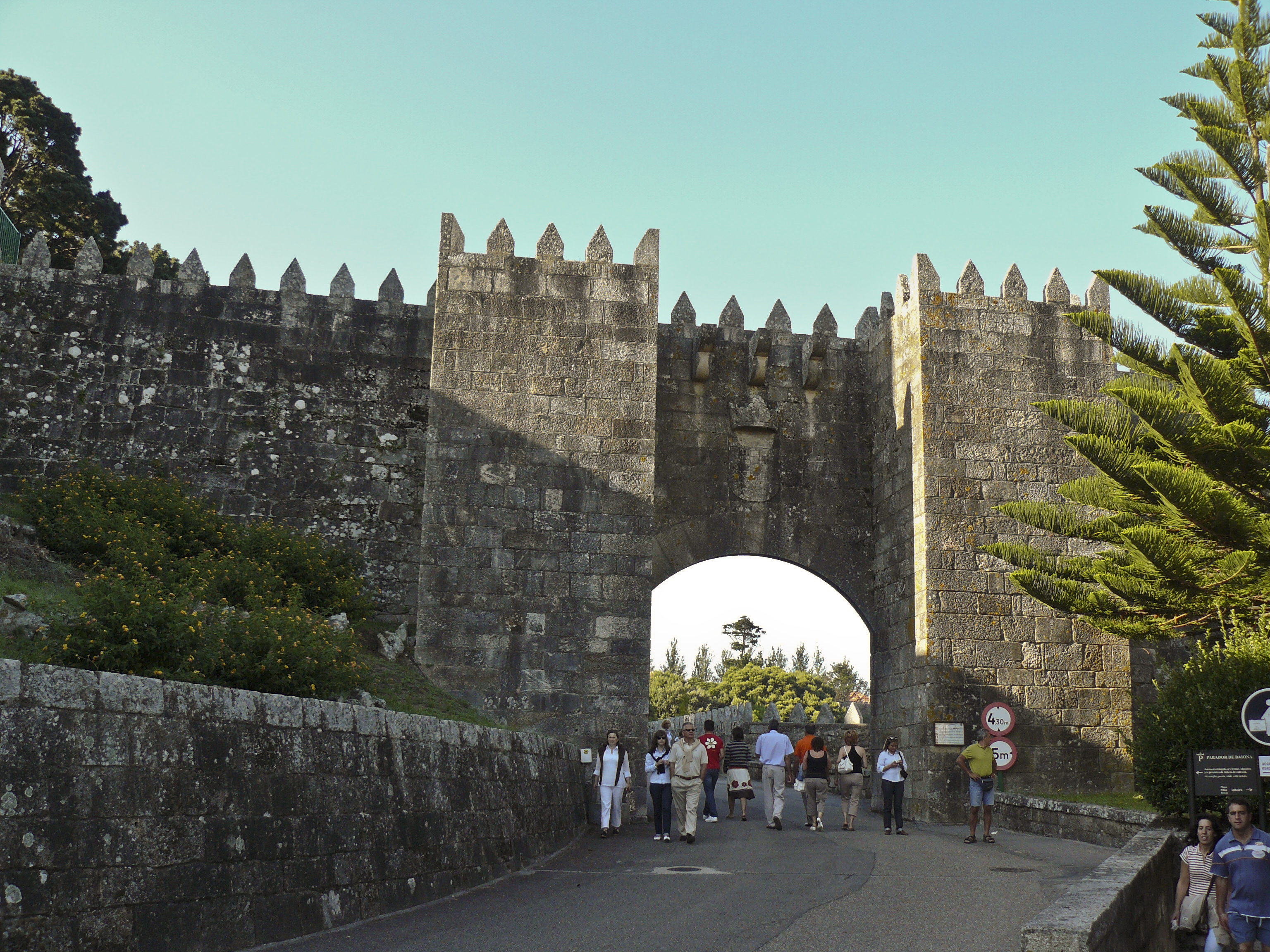 Door of Castle of Monterreal - Baiona - Pontevedra